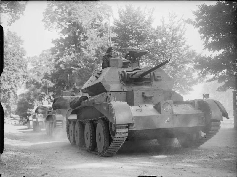 The British Army in the United Kingdom 1939-45 A column of Cruiser Mk IV tanks of 3rd Royal Tank Regiment on exercise in East Anglia, 3 September 1940.